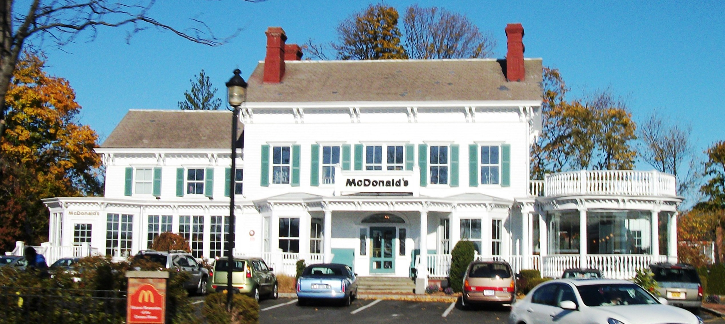 The historic Joseph Denton House in New Hyde Park, New York, that was converted into a McDonald's restaurant as seen from New York State Route 25. Efforts to take additional and improved photographs of the house have been met with rejection from the management of this branch of the restaurant, so this one drive-by photograph will have to be sufficient.